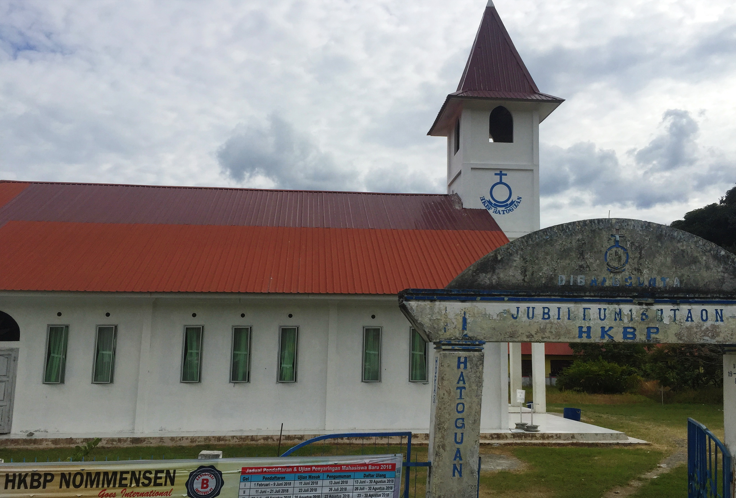 HKBP Hatoguan, Church in Hatoguan, Palipi, Samosir